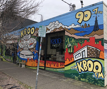 Offices and studios of KBOO-FM, one of the oldest community radio stations in the U.S.